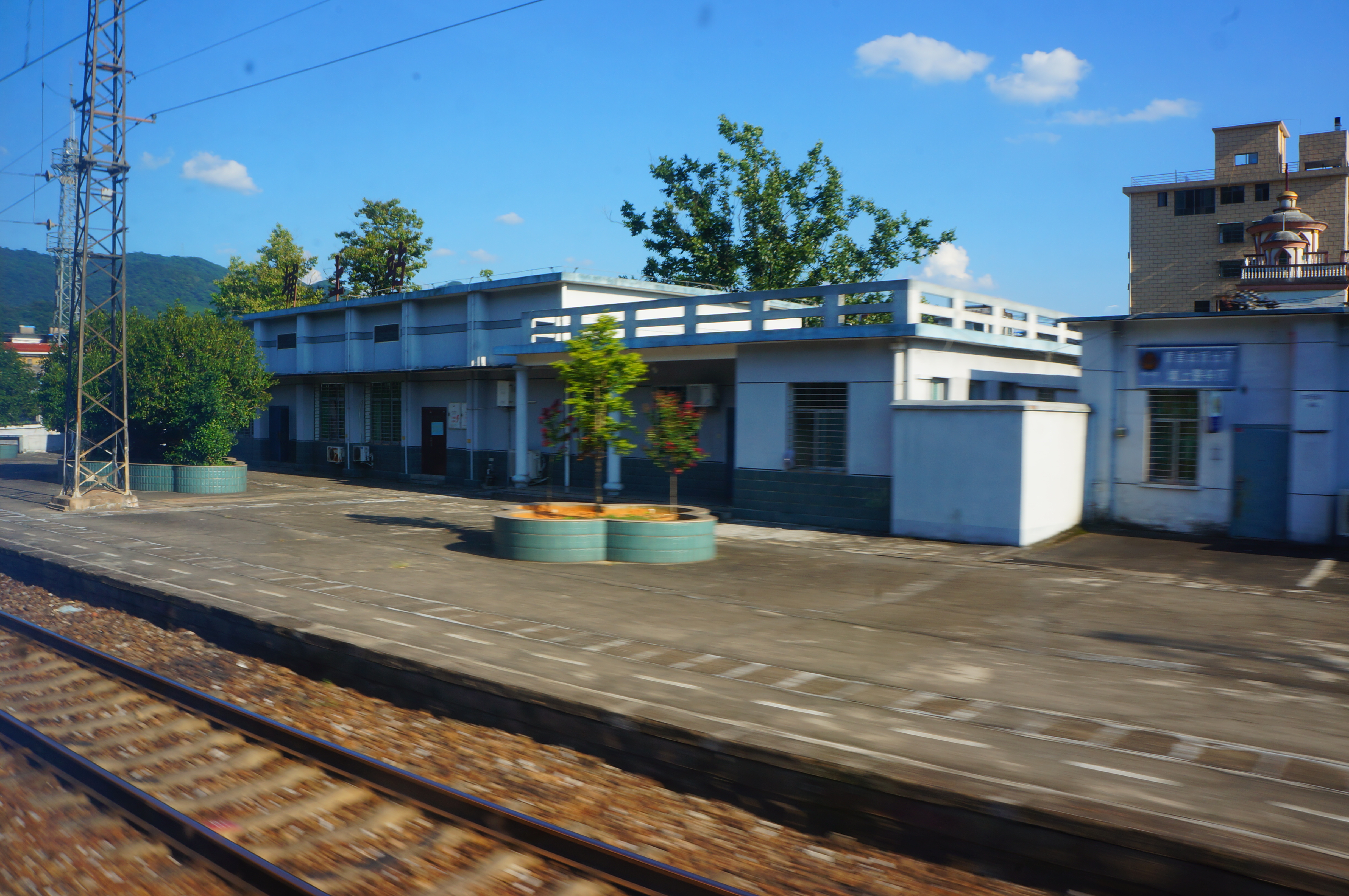 201806 Station Building of Pushang Station